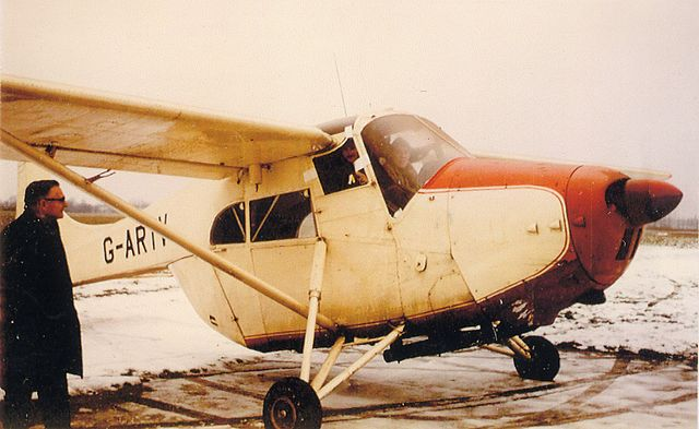 Description: Percival E.P.9 Prospector